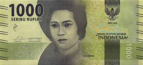 1000 rupiah bill, 2016 series, obverse